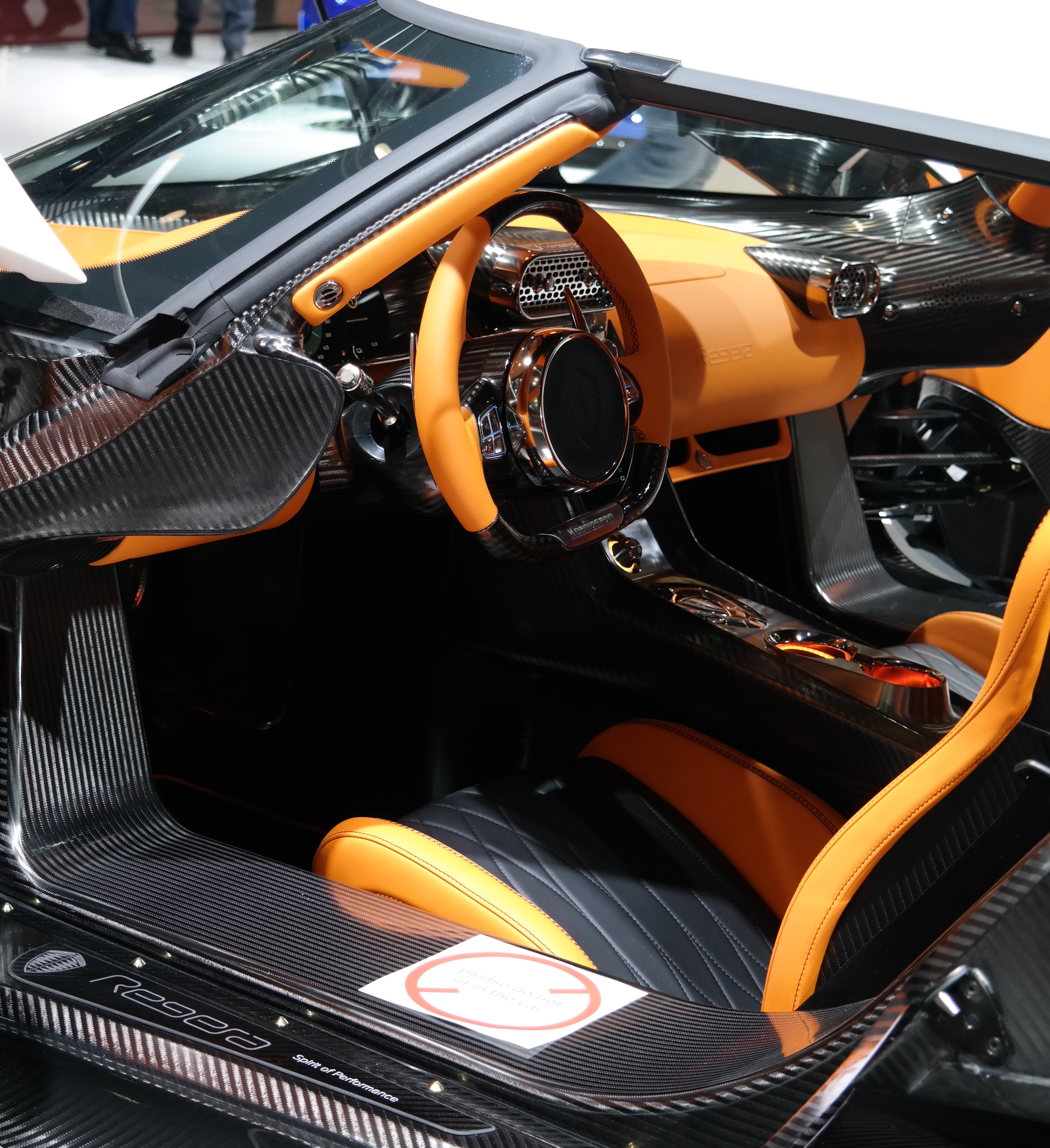 Interior of the Koenigsegg Regera